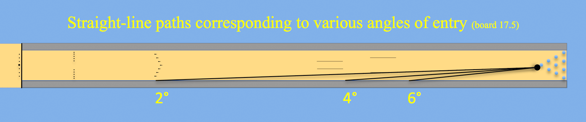 Diagram showing straight-line paths for angles of entry into "pocket" (assumes ball is centered at board 17.5 at impact), specifically for angles of entry of 2, 4, and 6 degrees. Round-off error in representations may result from Microsoft Powerpoint's accepting only two significant digits to right of decimal point. Calculations assume center of bowling ball is centered on board 17.5, and 6.38 inches up-lane from center of head pin. Board 20 is centered 41.5/2=20.75 inches from edge, minus 2.5 inches from board 20 to board 17.5 = 18.25 inches. Board 17.5 is 18.25 inches from right edge of lane. 18.25 / tan 2° / 12 = 43.57 feet up-lane from center of ball at impact 18.25 / tan 4° / 12 = 21.75 feet up-lane from center of ball at impact 18.25 / tan 6° / 12 = 14.47 feet up-lane from center of ball at impact